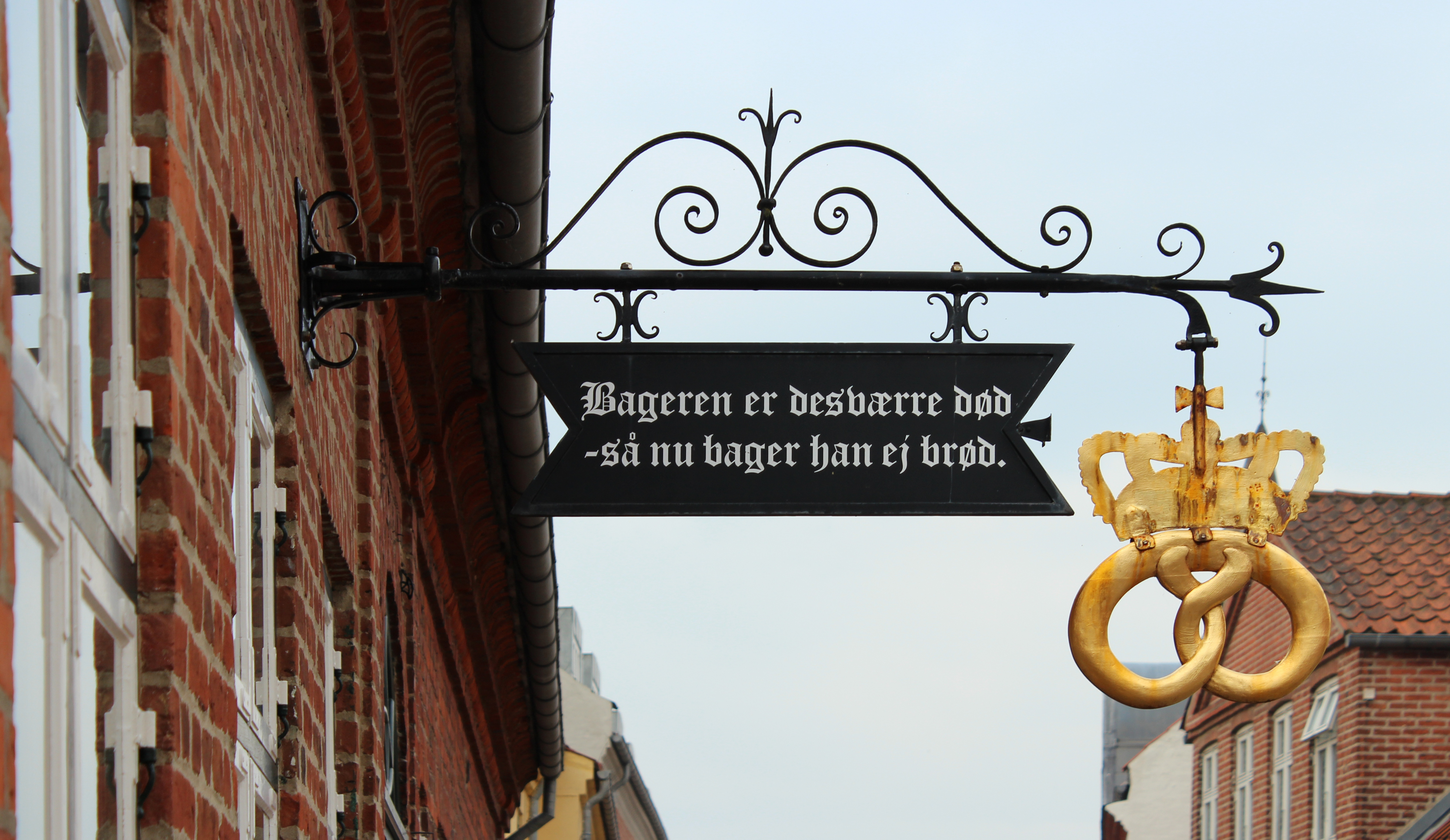 The well known sign on Zahrtmanns Gård, Sct. Mogens Gade 26, Viborg, Denmark from 1972 or 1973. The text translates to "The baker is unfortunately dead - so now he is not baking bread" and originates from the Danish author Peter Seeberg.